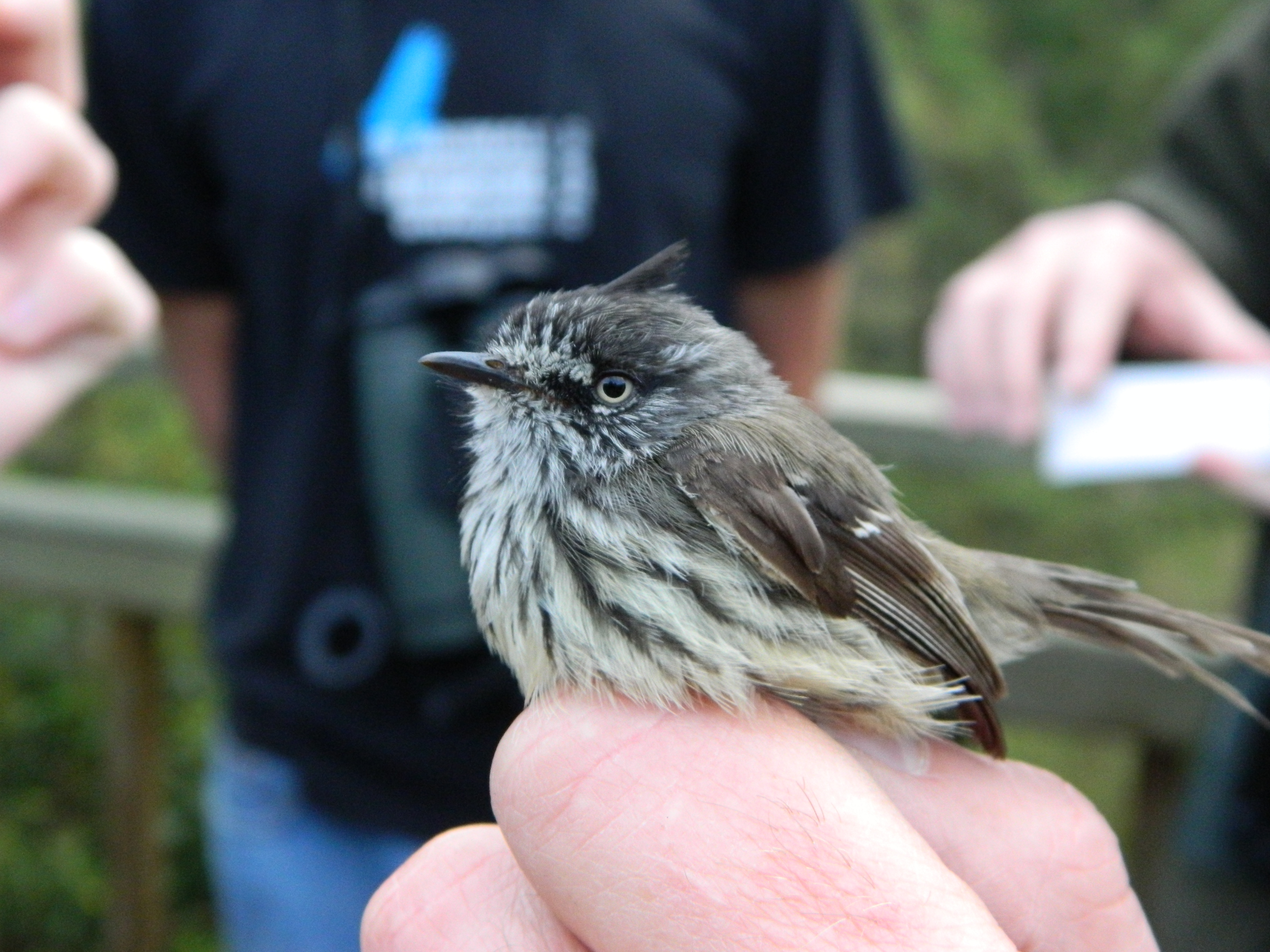 Tufted tit-tyrant in Quito, Ecuador